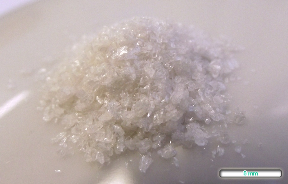 Photo of Salicylamide, pure